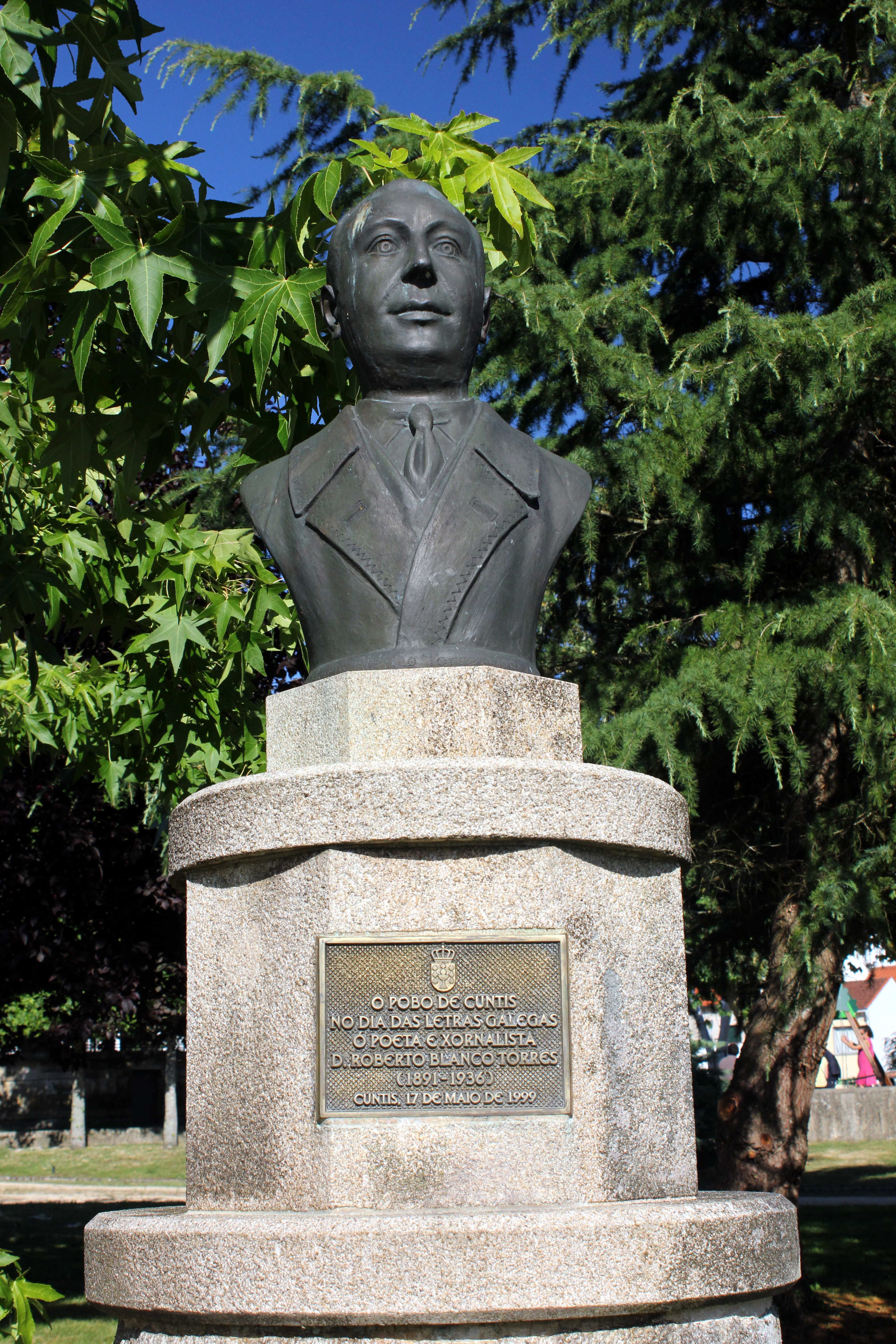 Bust of Roberto Blanco Torres, in Cuntis, Galicia, Spain.